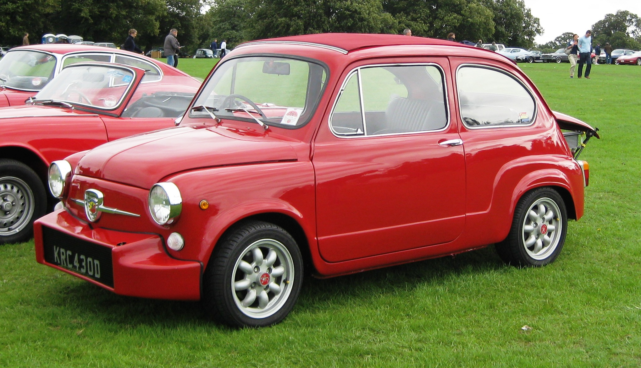 Fiat-Abarth which started out as a Fiat 600